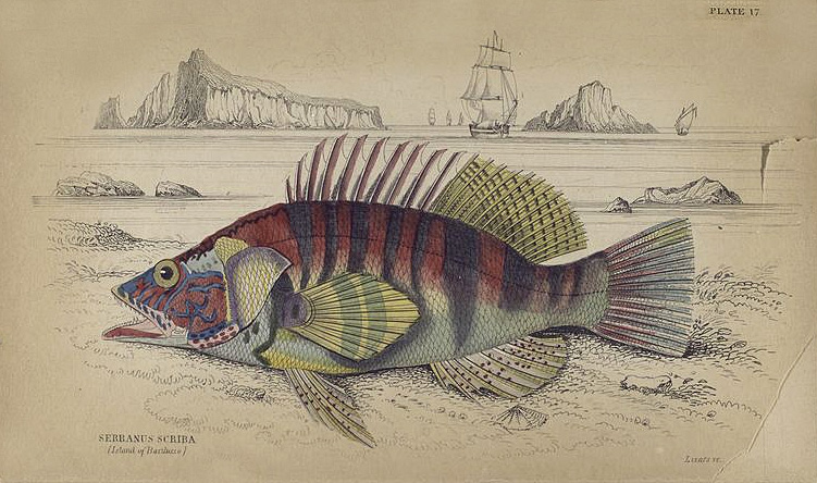 Serranus scriba (Island of Bazziluzzo). 1835. (The natural history of fishes of the perch family. Illustrated by thirty-six plates coloured; with memoir and portrait of Sir Joseph Banks, bart., Series : The naturalist's library. Ichthyology. vol. I.)